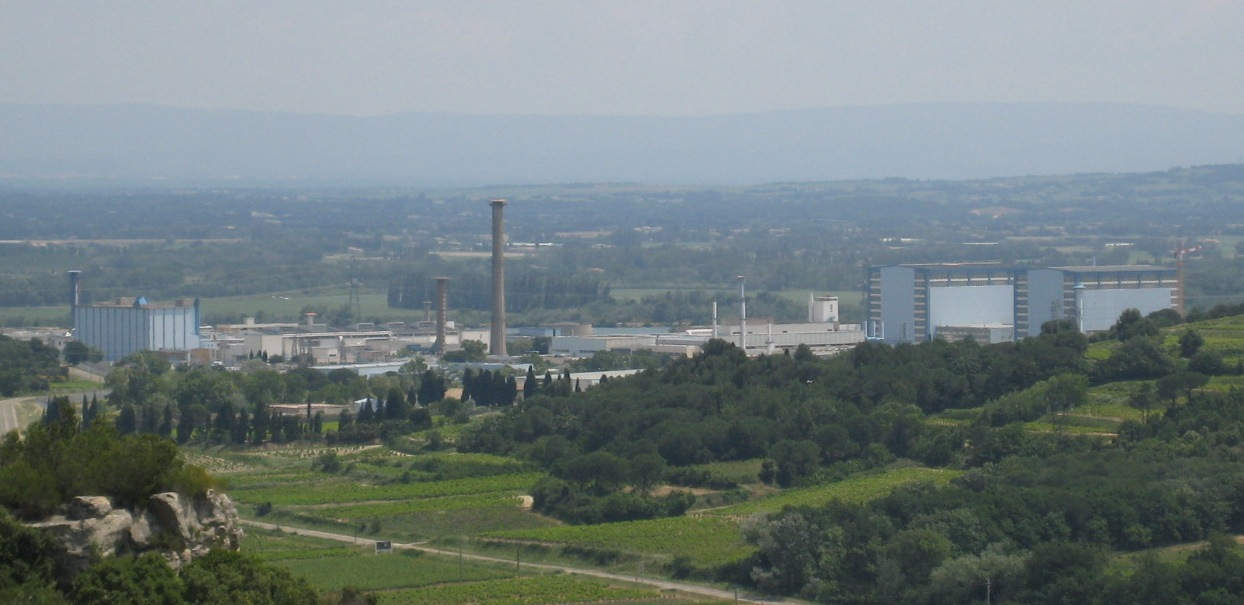 Marcoule nuclear center, in France